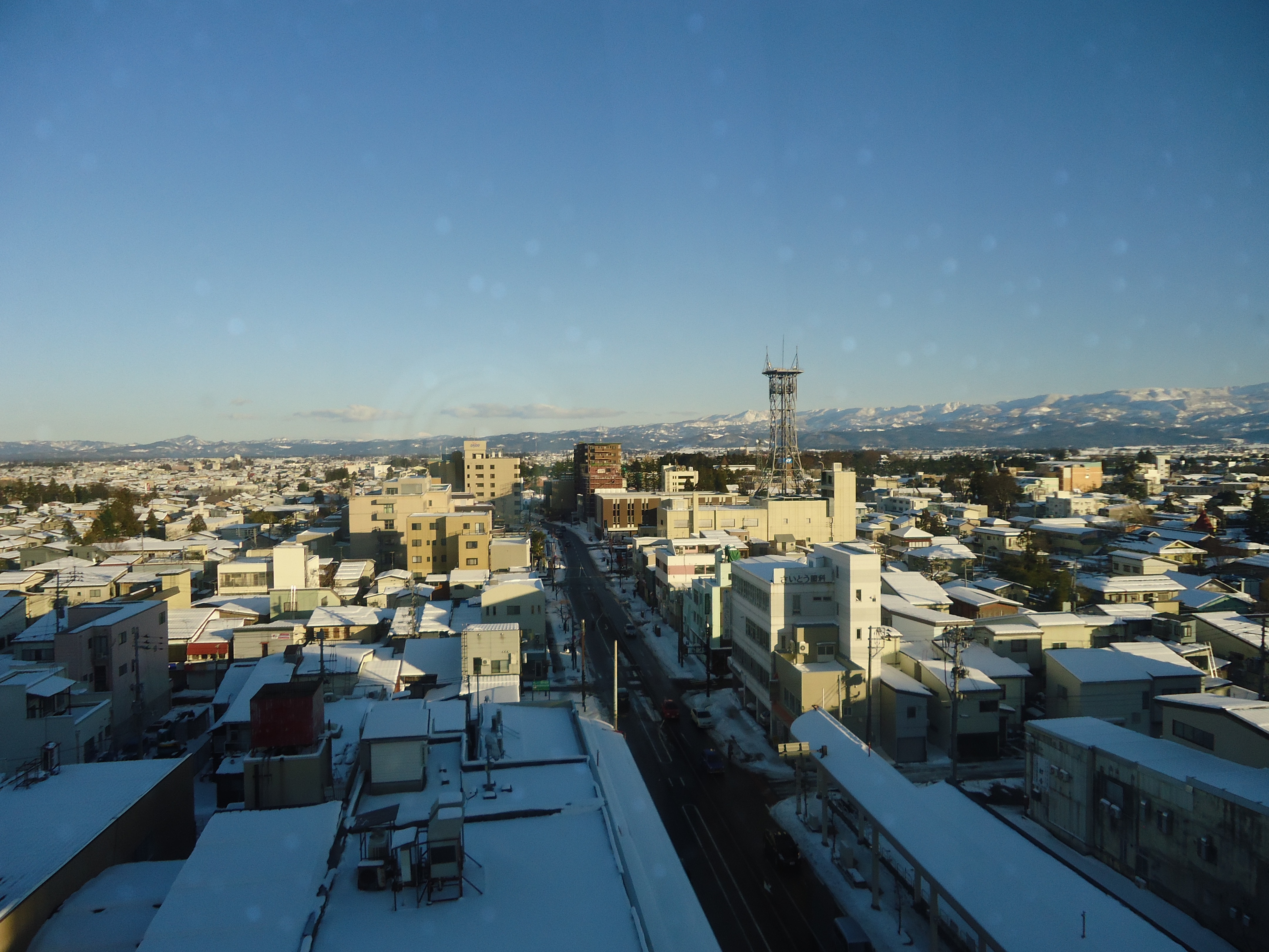 Sunrise over snowy Takada